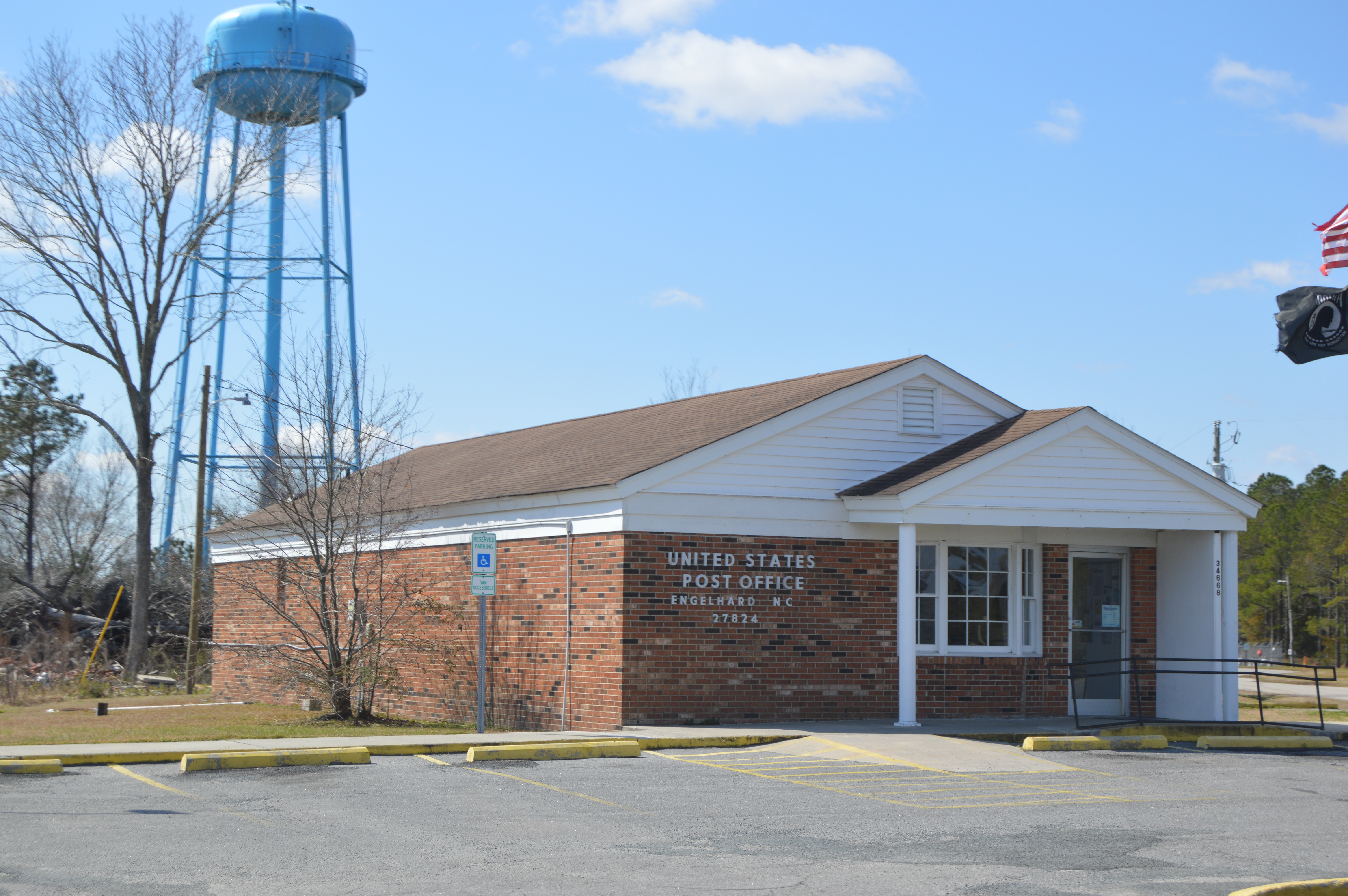 Front and western side of the Engelhard post office, located at 34668 U.S. Route 264 at Engelhard in Hyde County, North Carolina, United States.